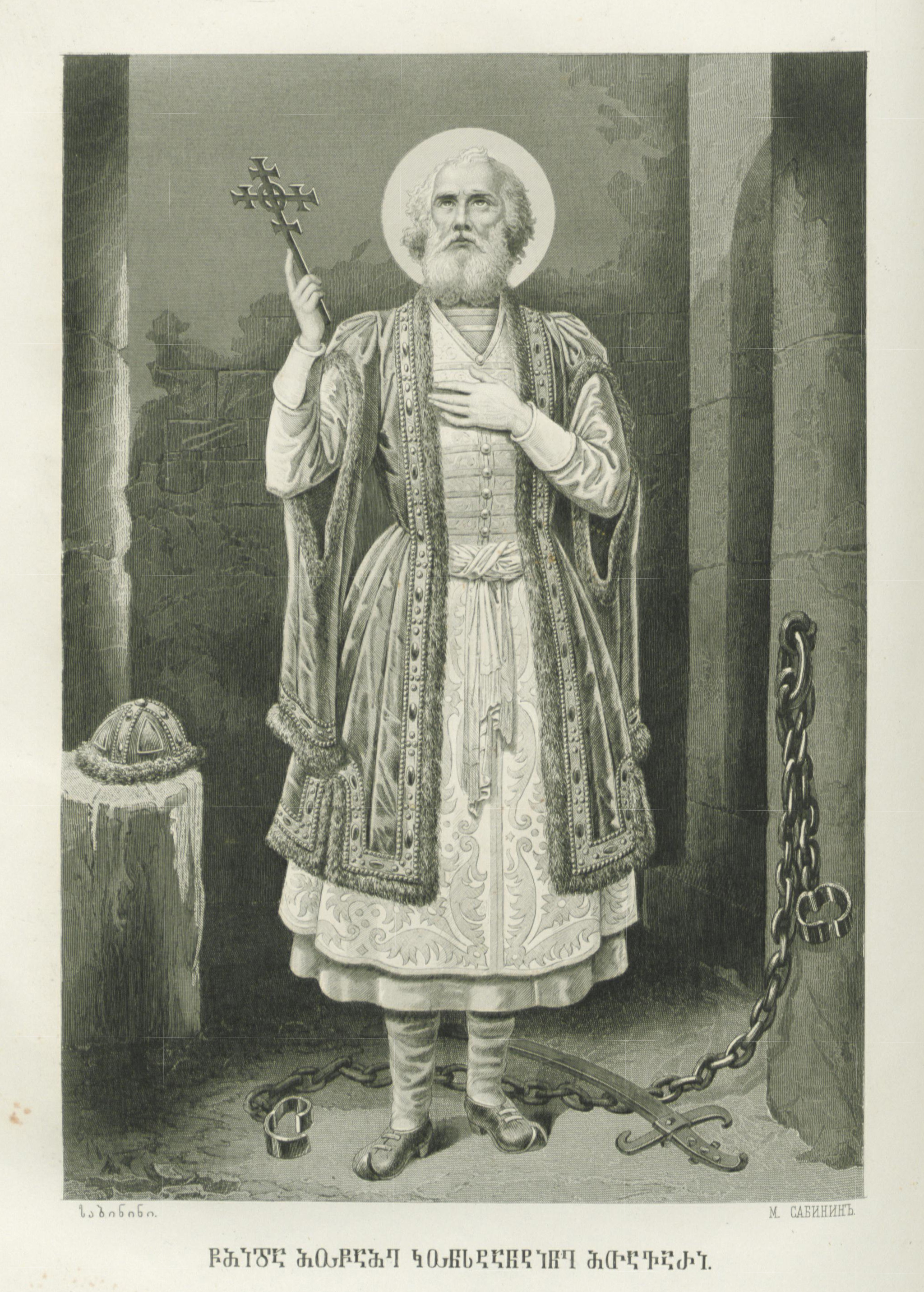 St. Konstanti-Kakha (768-853)